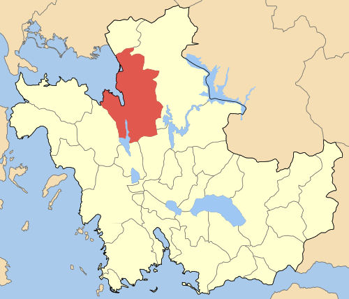 Locator map of Amfilohias municipality (Δήμος Αμφιλοχίας) at Aitoloakarnania perfecture, Greece.